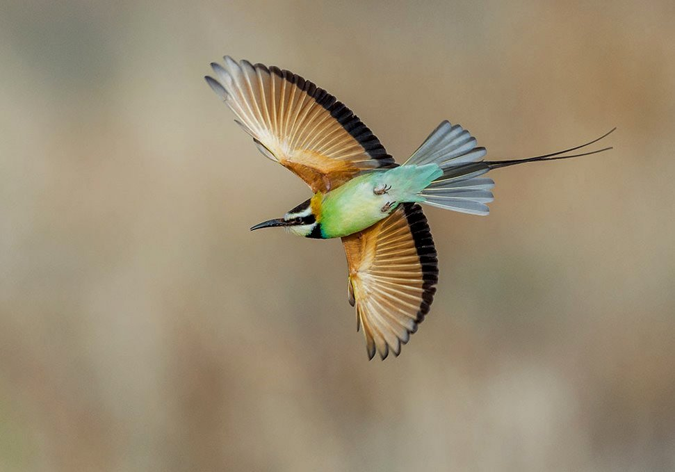 500px provided description: Taken in Kenya White-throated Bee-eater, thank you to watch. [#birds ,#animal ,#africa ,#kenya ,#bee-eaters]